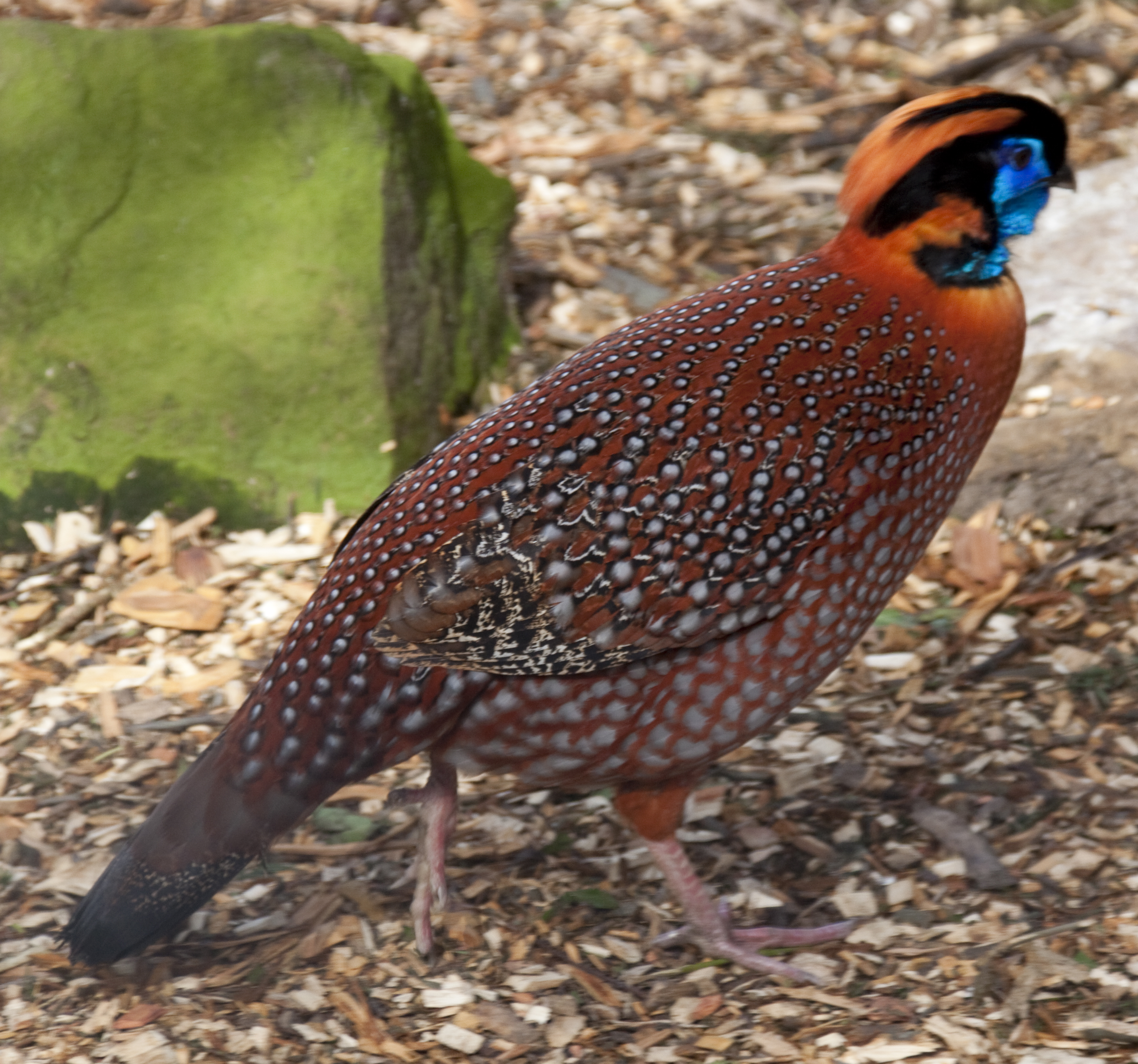 Temmincks Tragopan 4